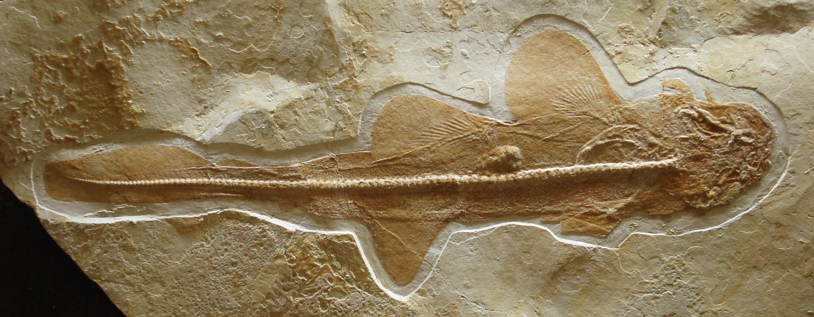 fossil of Phorcynis